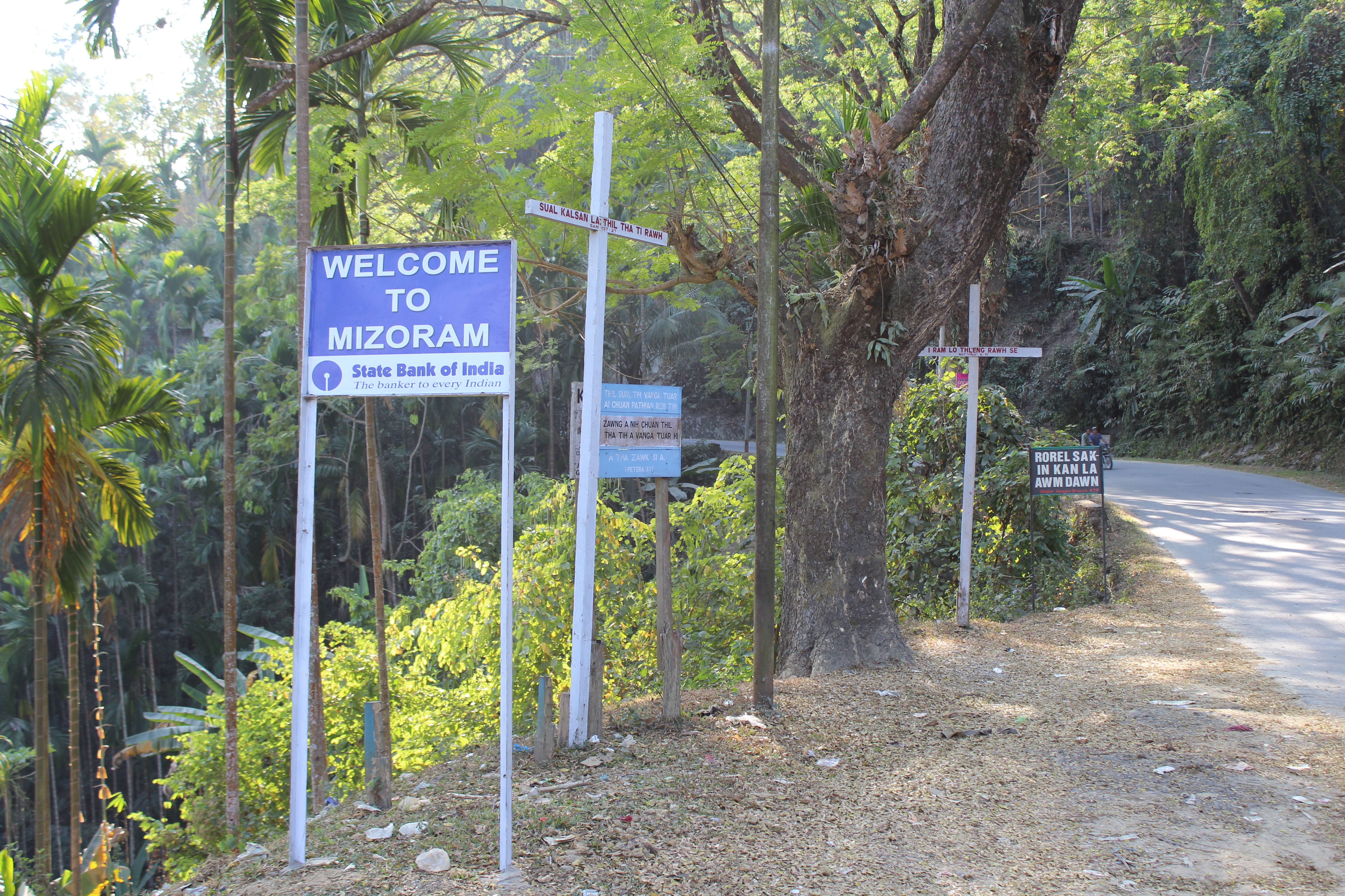 Welcome to Mizoram at the Assam/Mizoram border